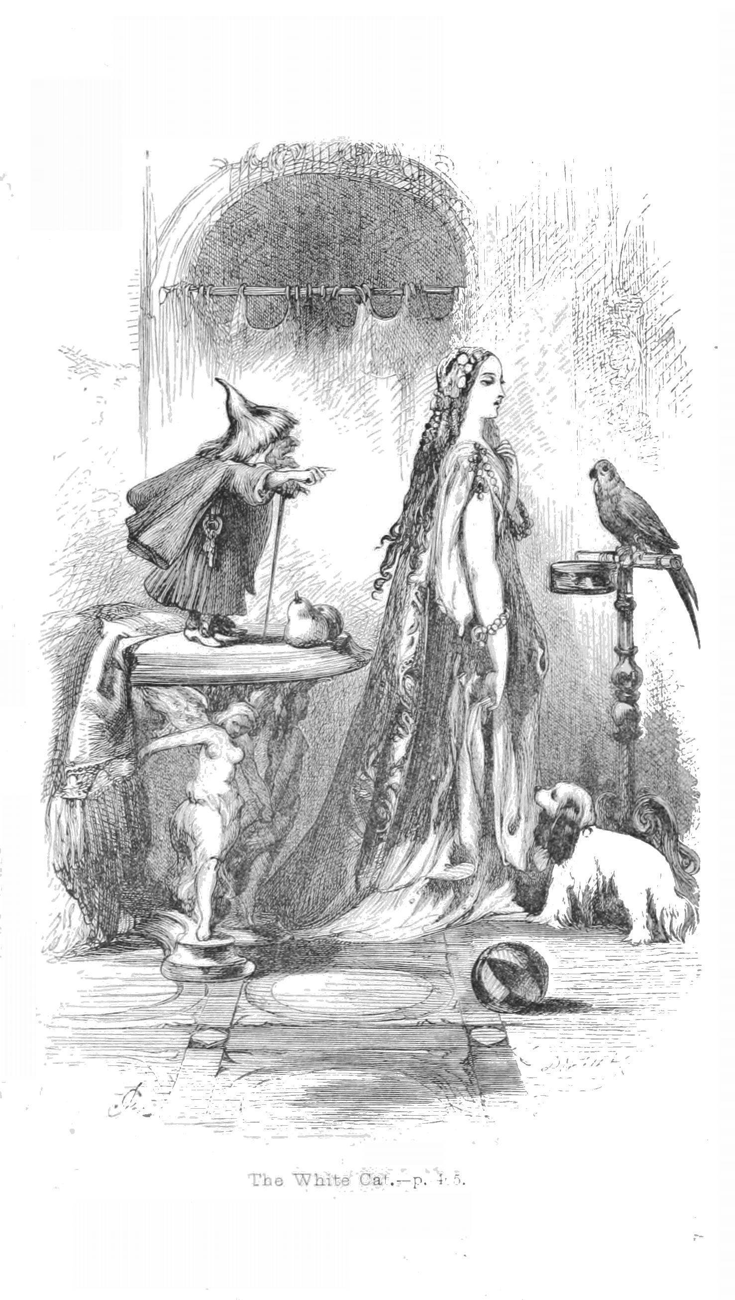 Illustration for a fairy tale by Madame d'Aulnoy